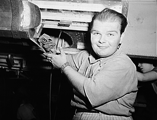 Joe Cobb, American actor, helps build North American B-25 bombers for the United Nations